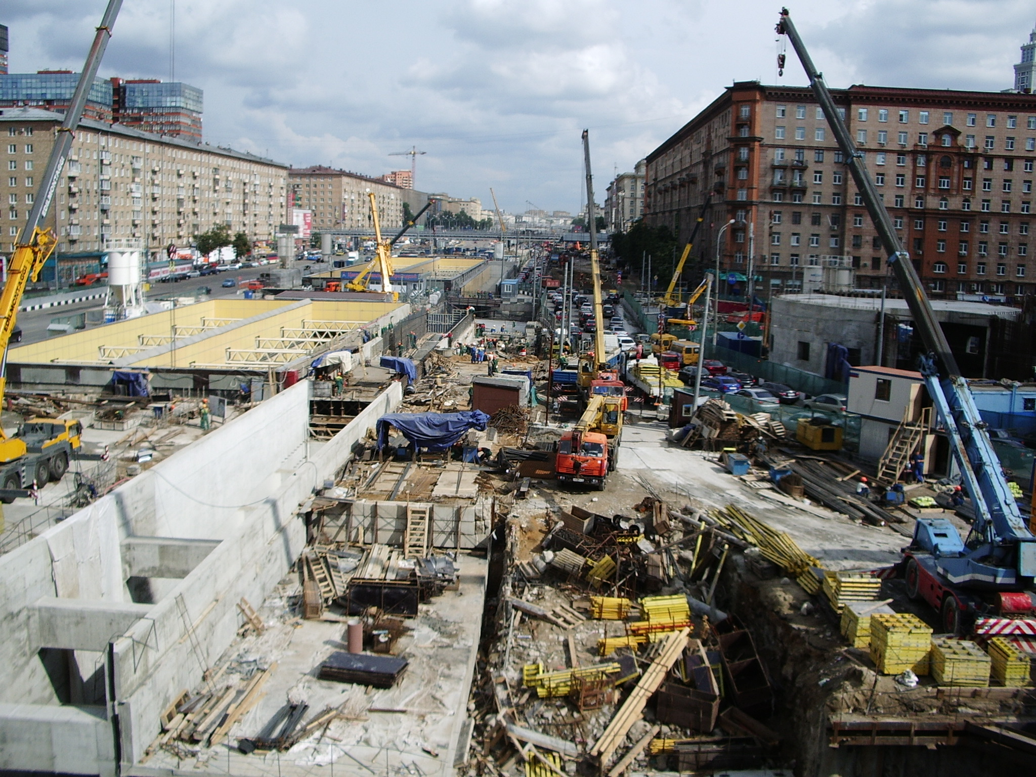 "Big Leningradka" construction in Moscow. August 2009.